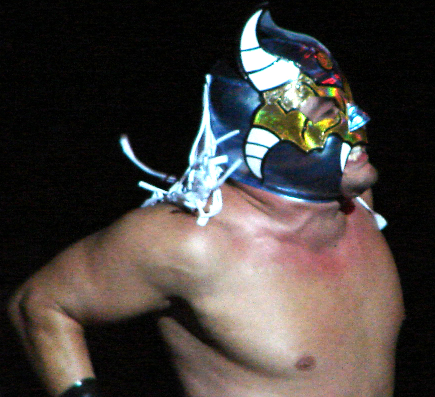 A close up of Mexican wrestler Averno.